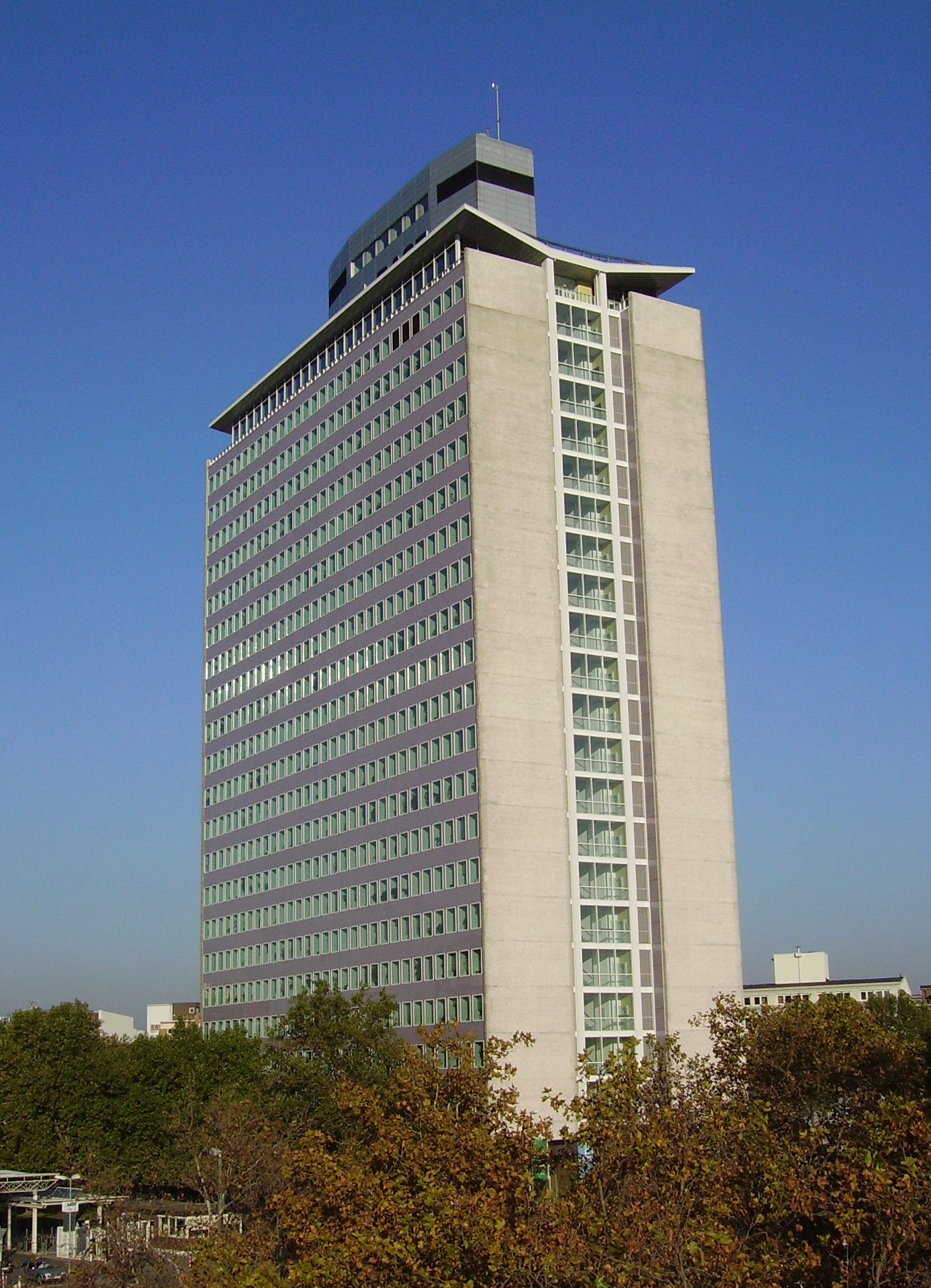 Friedrich-Engelhorn-Hochhaus, headquarter of the Germany BASF (chemical) company